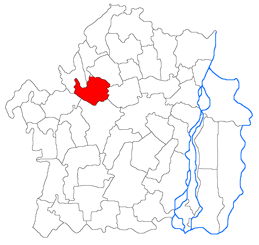 Limits of the commune of Şuţeşti in Brăila County, Romania